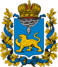 Pskov gubernia (Russian empire), coat of arms